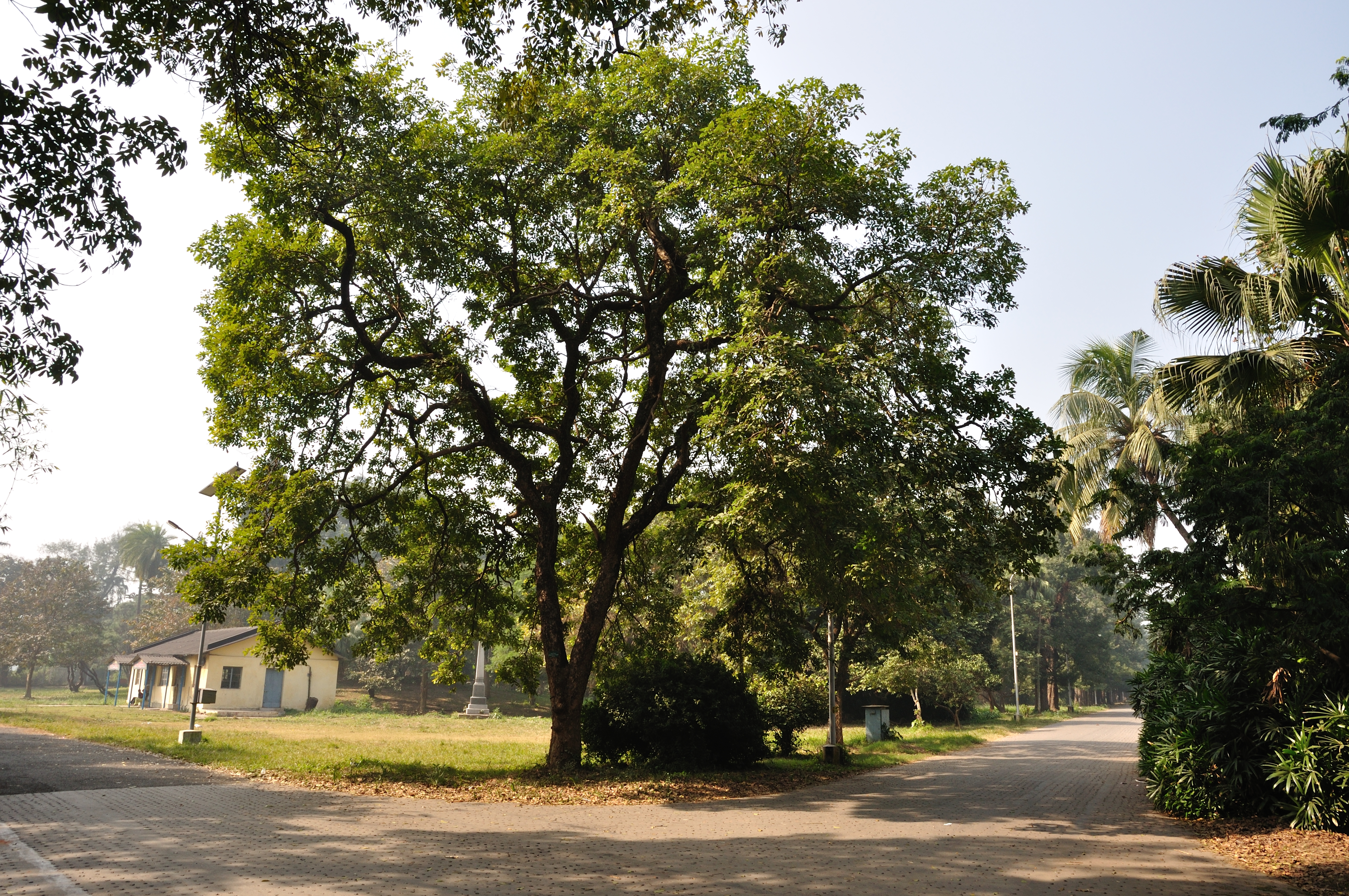 The botanical garden at Howrah, was known as ‘East India Company’s Garden’ or the ‘Company Bagan’ or ‘Calcutta Garden’ and later as the ‘Royal Botanic Garden’ which after independence was renamed as the ‘Indian Botanic Garden’ in 1950. It came under the management of the Botanical Survey of India on January 1, 1963. From June 25, 2009 it is renamed as ‘Acharya Jagadish Chandra Bose Indian Botanic Garden’.